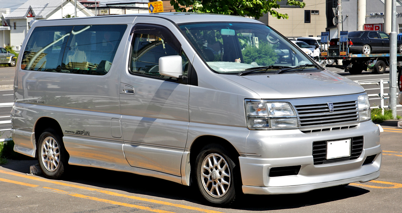 Nissan Elgrand Hiway Star ( ALE50 )